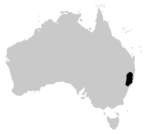 Distribution of the Mountain Stream Tree Frog (Litoria barringtonensis).